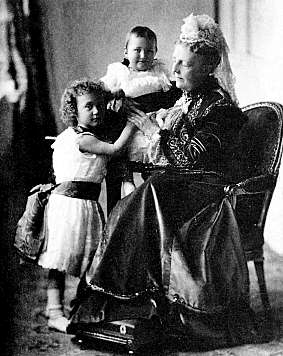 Sofia of Nassau the Queen of Sweden and Norway (1836-1913) with her grandchildren, princess Margaretha and Märtha.